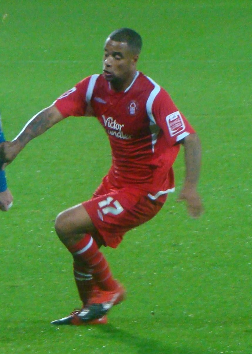 01/11/09 Cardiff City V Nottingham Forest, Cardiff City Stadium, Cardiff, Wales